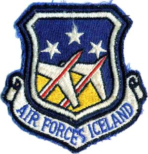 Patch of Air Forces Iceland emblem (Naval Air Station Keflavik) Source: Scan of author's personal patch/United States Air FOrce